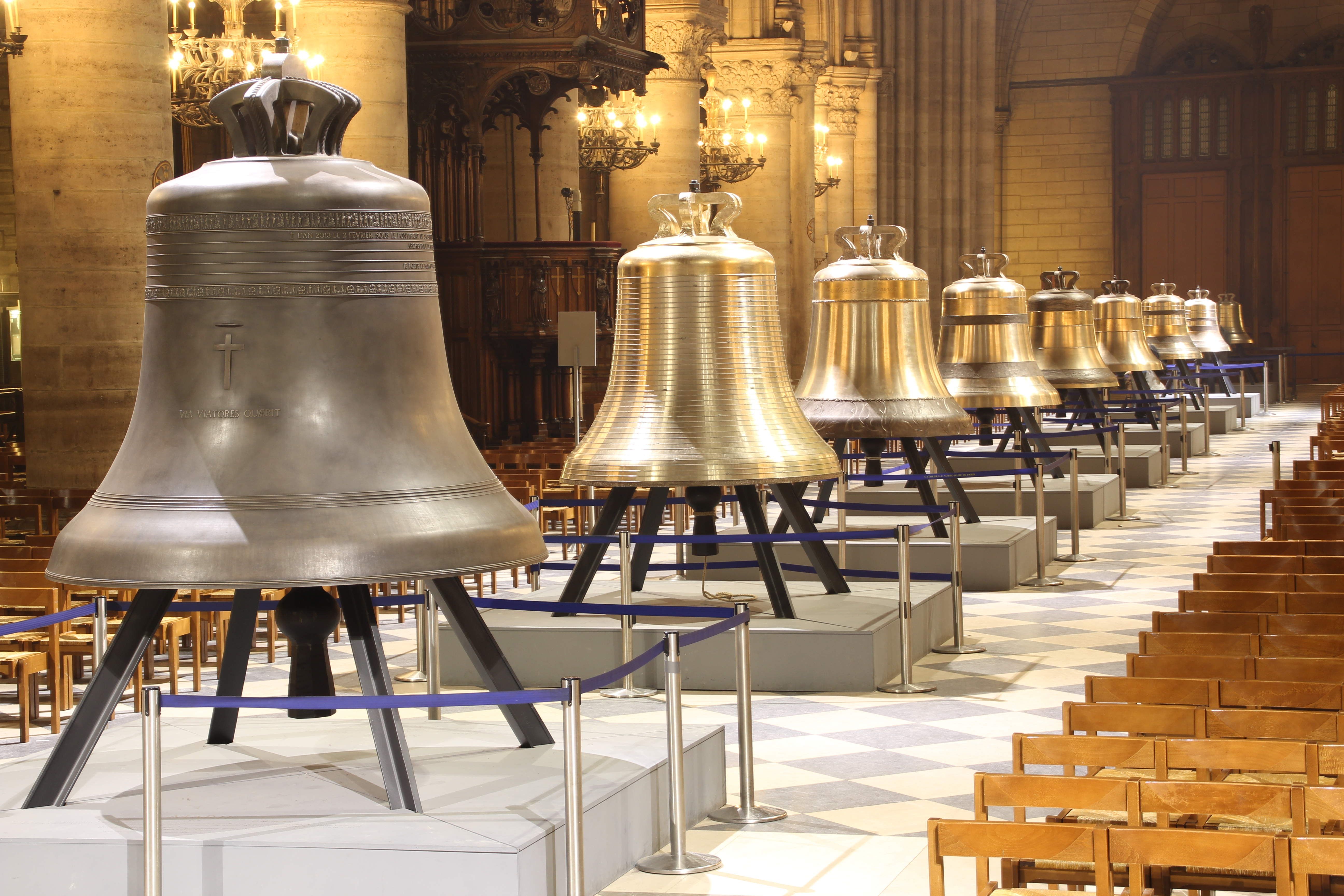 Visit of the cathedral during the exhibition of the new bells in Notre-Dame de Paris, France in 2013.